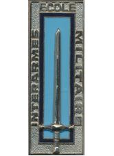 Insignia of the Ecole Militaire Inter Weapons(France).